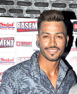 Indian cricketer Hardik Pandya with actor Dilzan Wadia at the song promo and poster launch of the film Four Pillars of Basement.